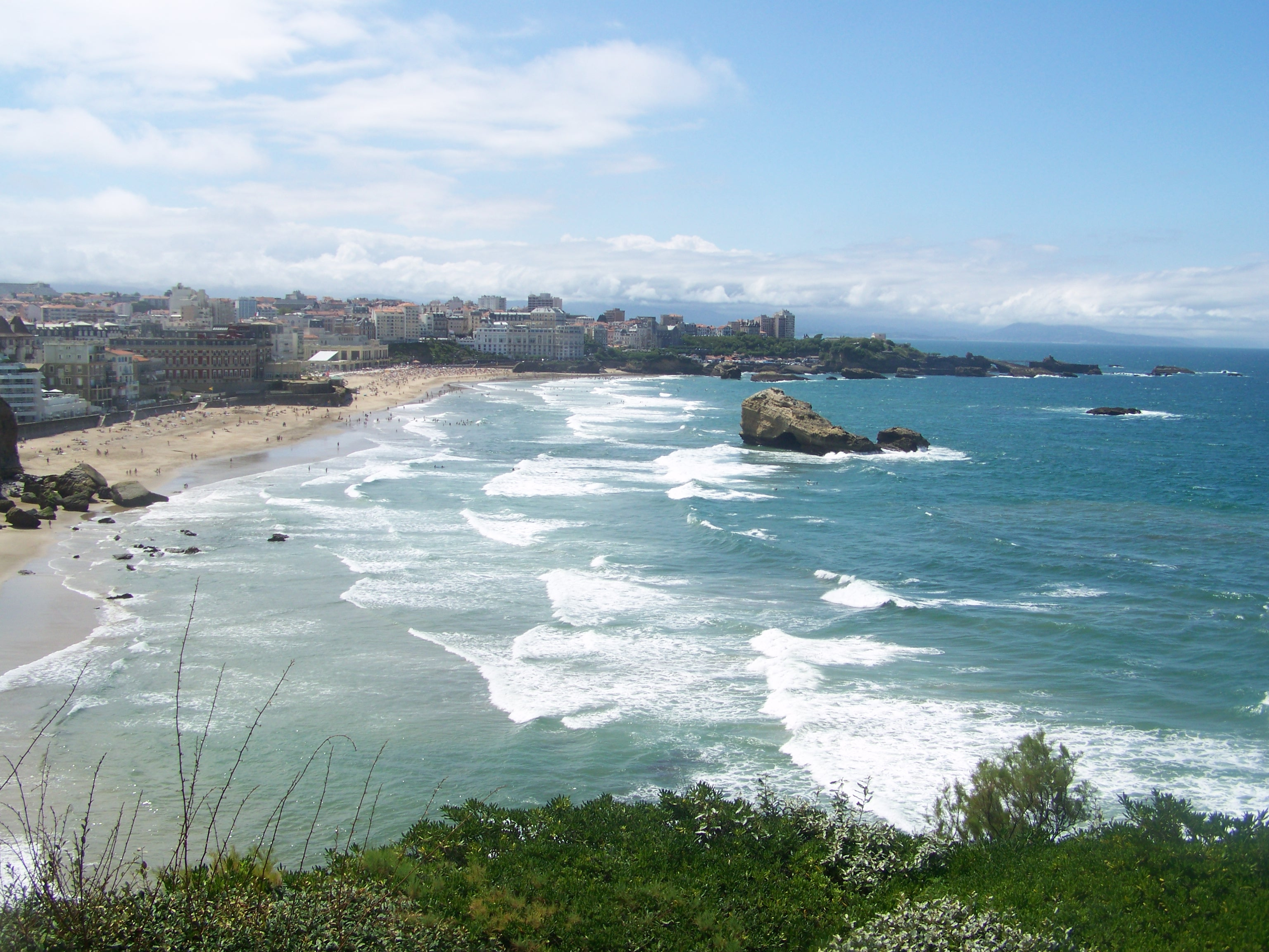 Landscape of city of Biarritz and the Atlantic Ocean, in Pyrénées-Atlantiques, France.